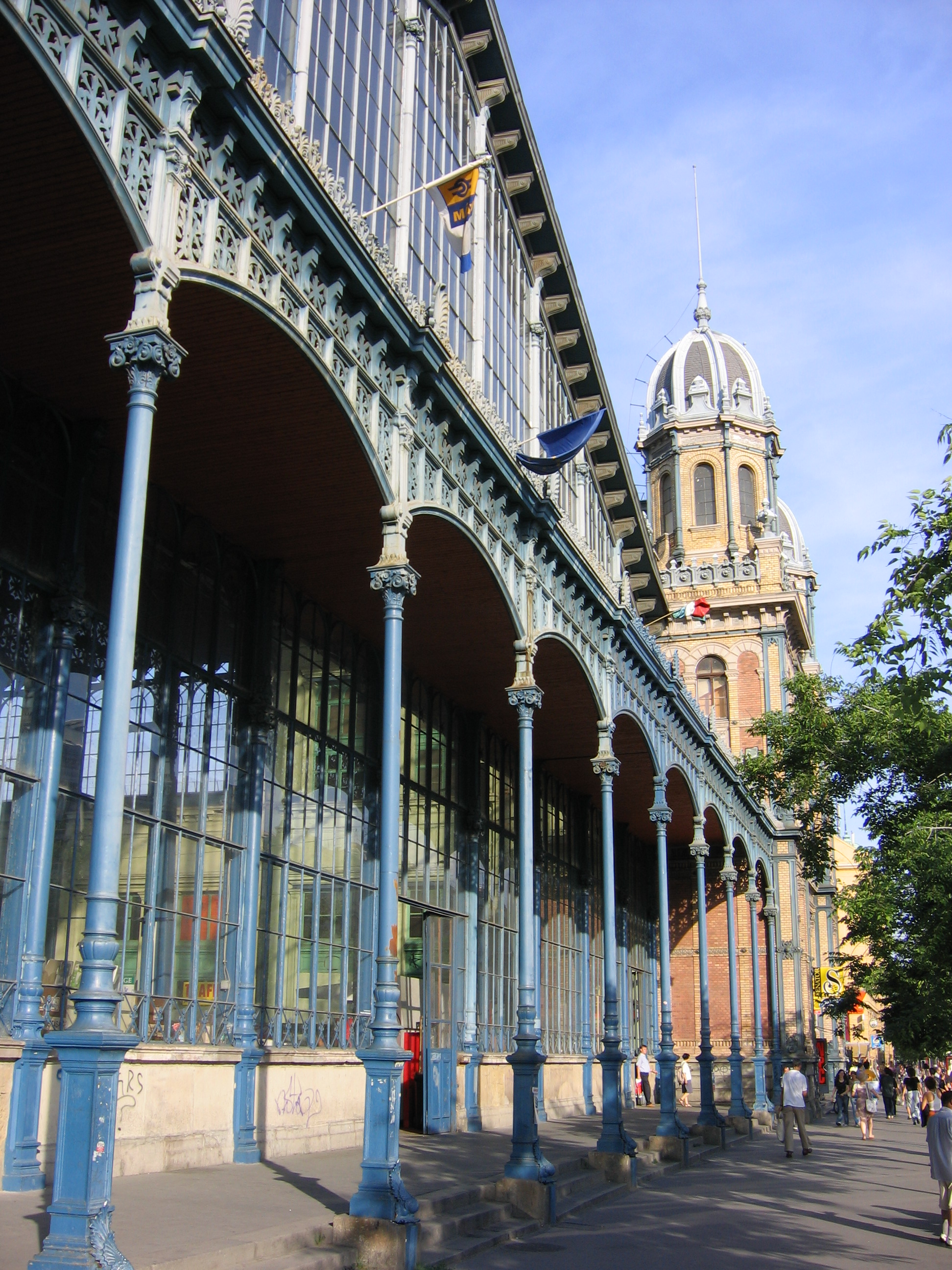 Nyugati pályaudvar (Western Railway Station), Budapest